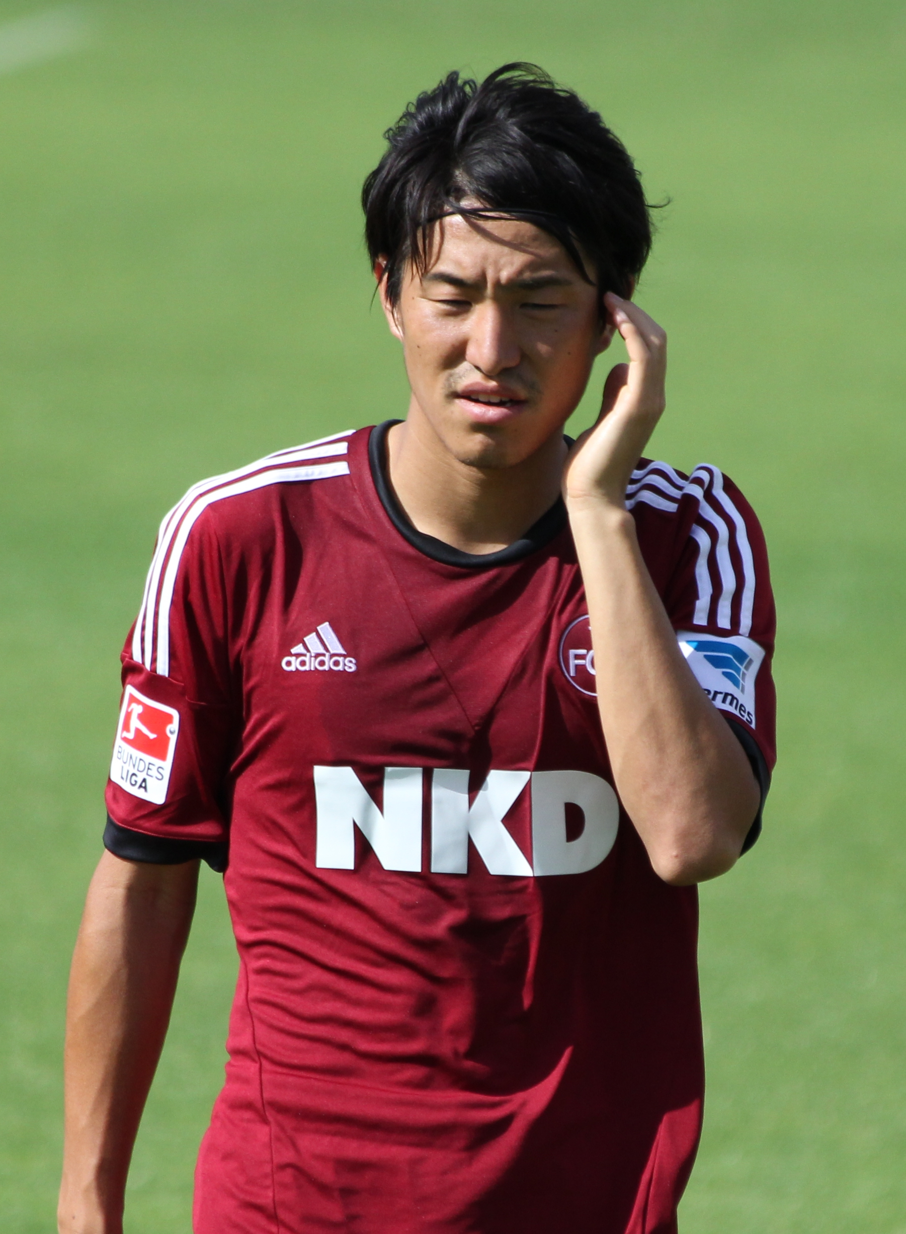 Mū Kanazaki, football player for German side 1. FC Nürnberg, 2012/13 season, first training session